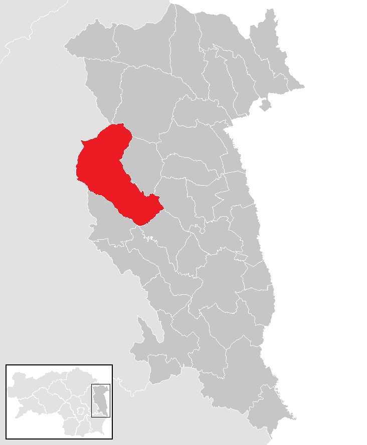 district Hartberg-Fürstenfeld